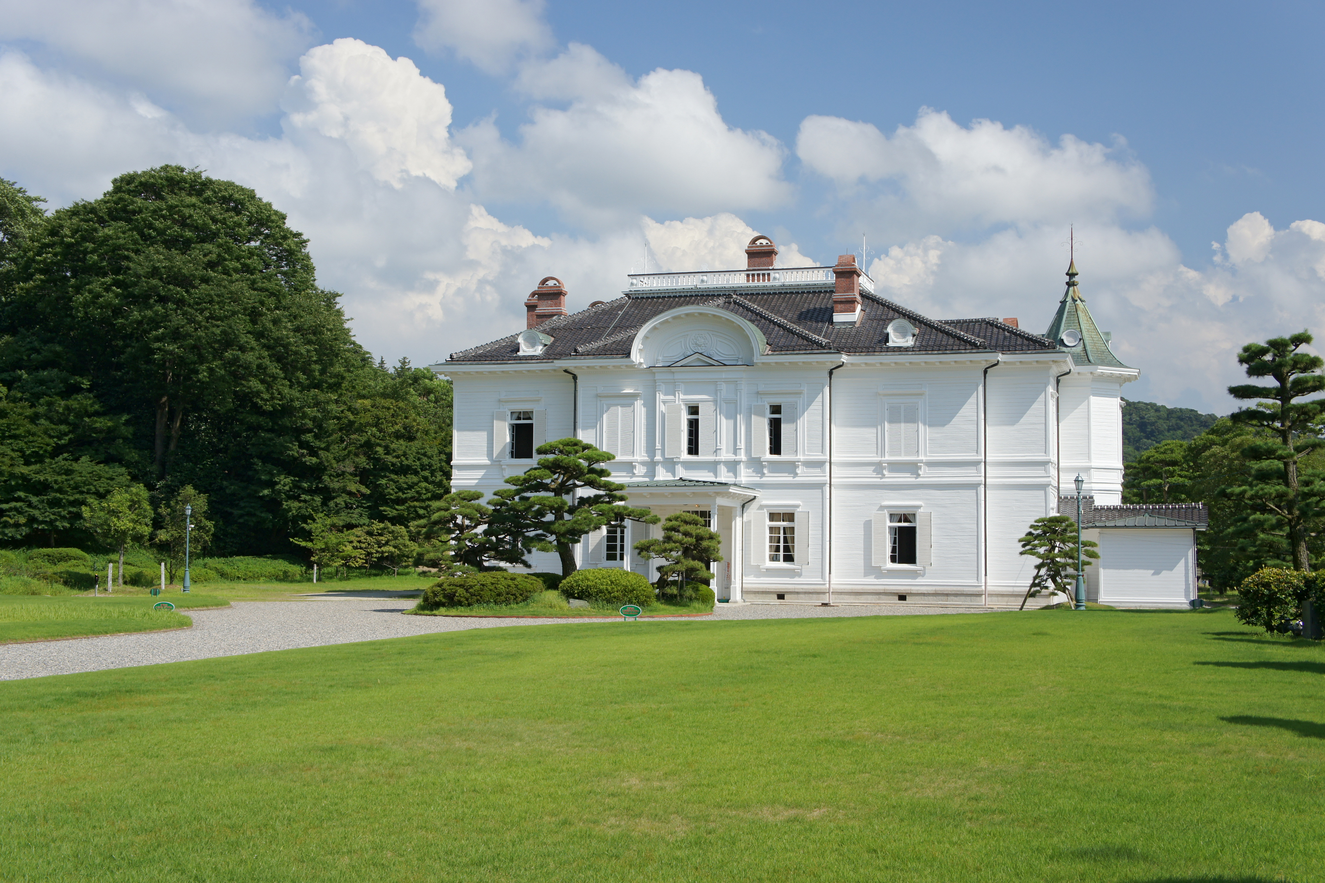 Jinpukaku in Tottori, Tottori prefecture, Japan.